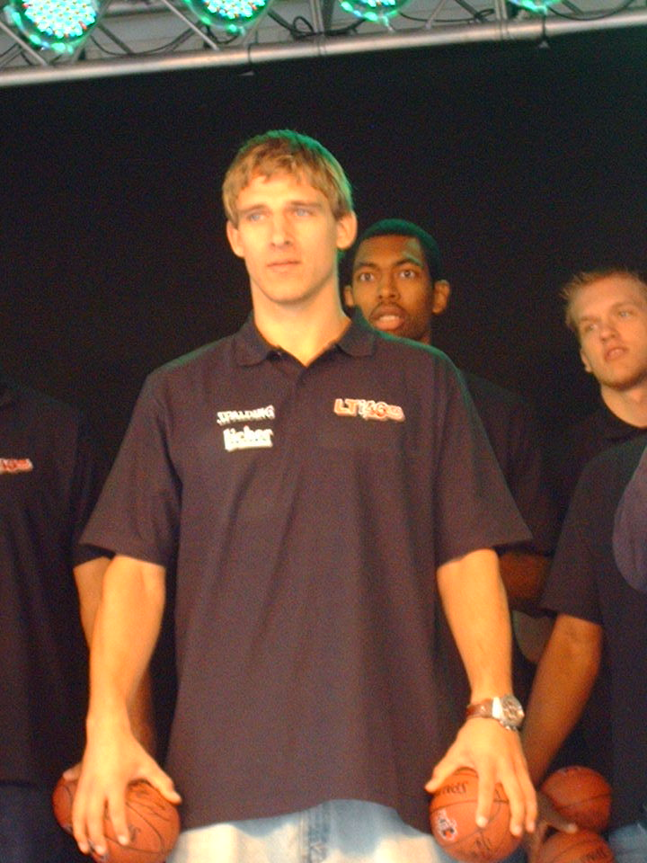 Heiko Schaffartzik, Gießen, Germany check usage